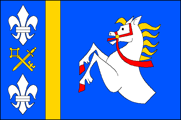 Municipal flag of Dětřichov village, Svitavy District, Czech Republic.